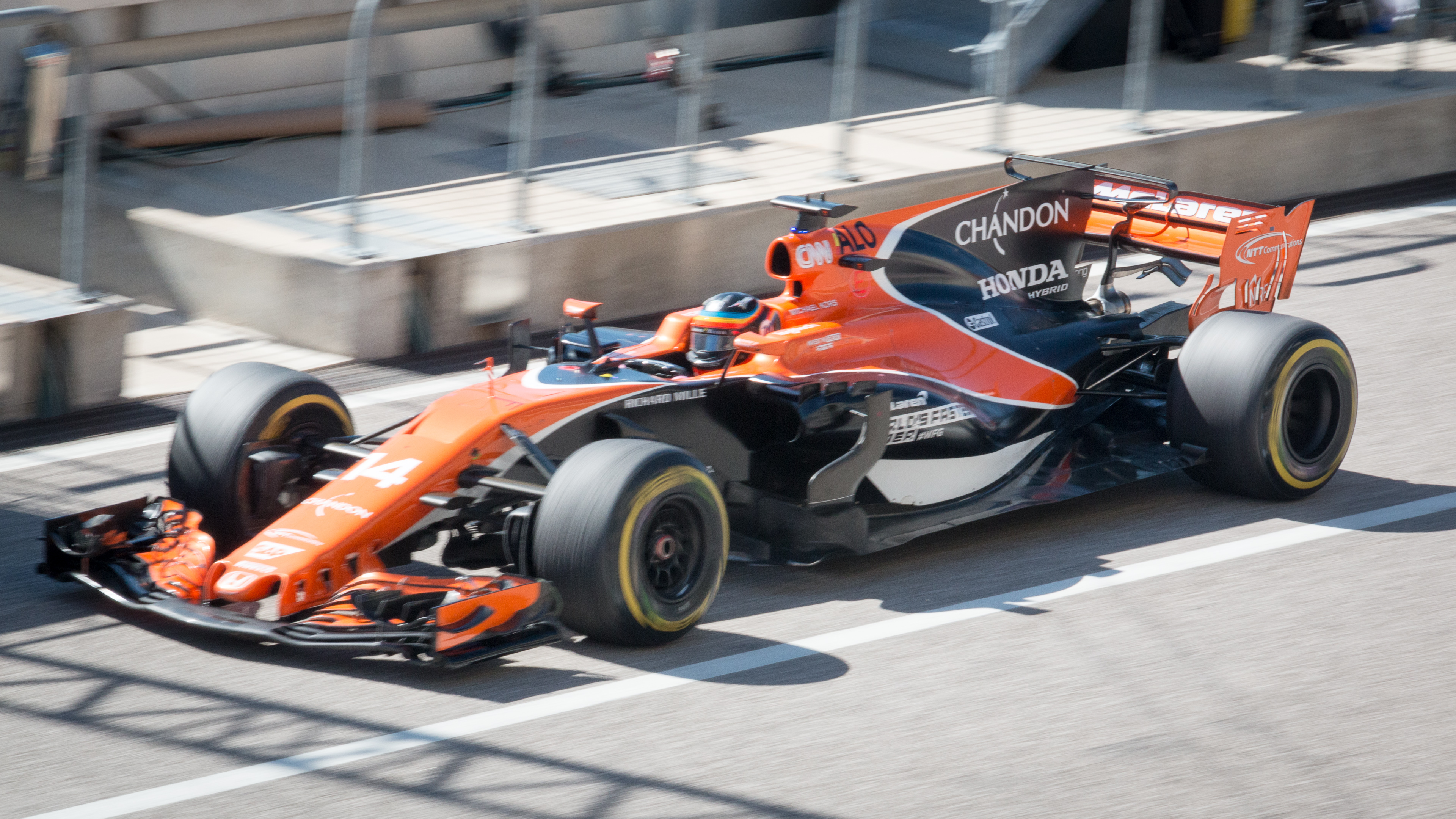 USGP Austin Oct 2017